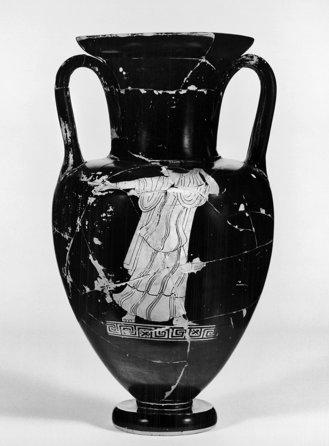 The front of this amphora depicts a youth running right. He wears a chlamys and fillet and has a petasos at his neck and a scabbard at his side. His hands are extended to either side, and his legs are spread wide, indicating that he is in full stride as he pursues the woman on the back. On the reverse, the woman is fleeing right, and is looking around. She wears a chiton, serpentine bracelets, and a mantle which is draped over her shoulders and down her back. Her torso and right leg are shown frontally, her head and left leg in profile. She extends her right hand back toward her pursuer, while grasping the mantle at her shoulder with the left. Ribbons hold her hair in place.